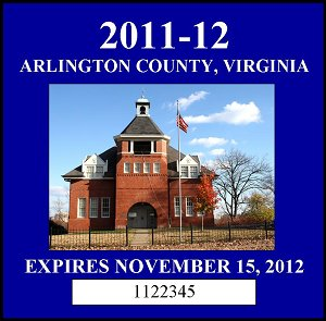 Image of the Arlington County Virginia 2011-2012 Vehicle Decal. Depicted is the Hume School in Arlington, which is listed on the National Register of Historic Places.